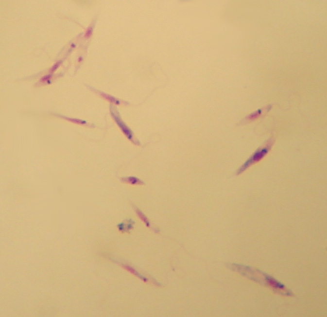 Promastigotes of Leishmania tropica. 10×100, Giemsa stain.